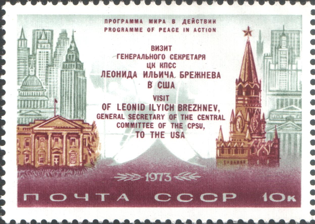 USSR stamp